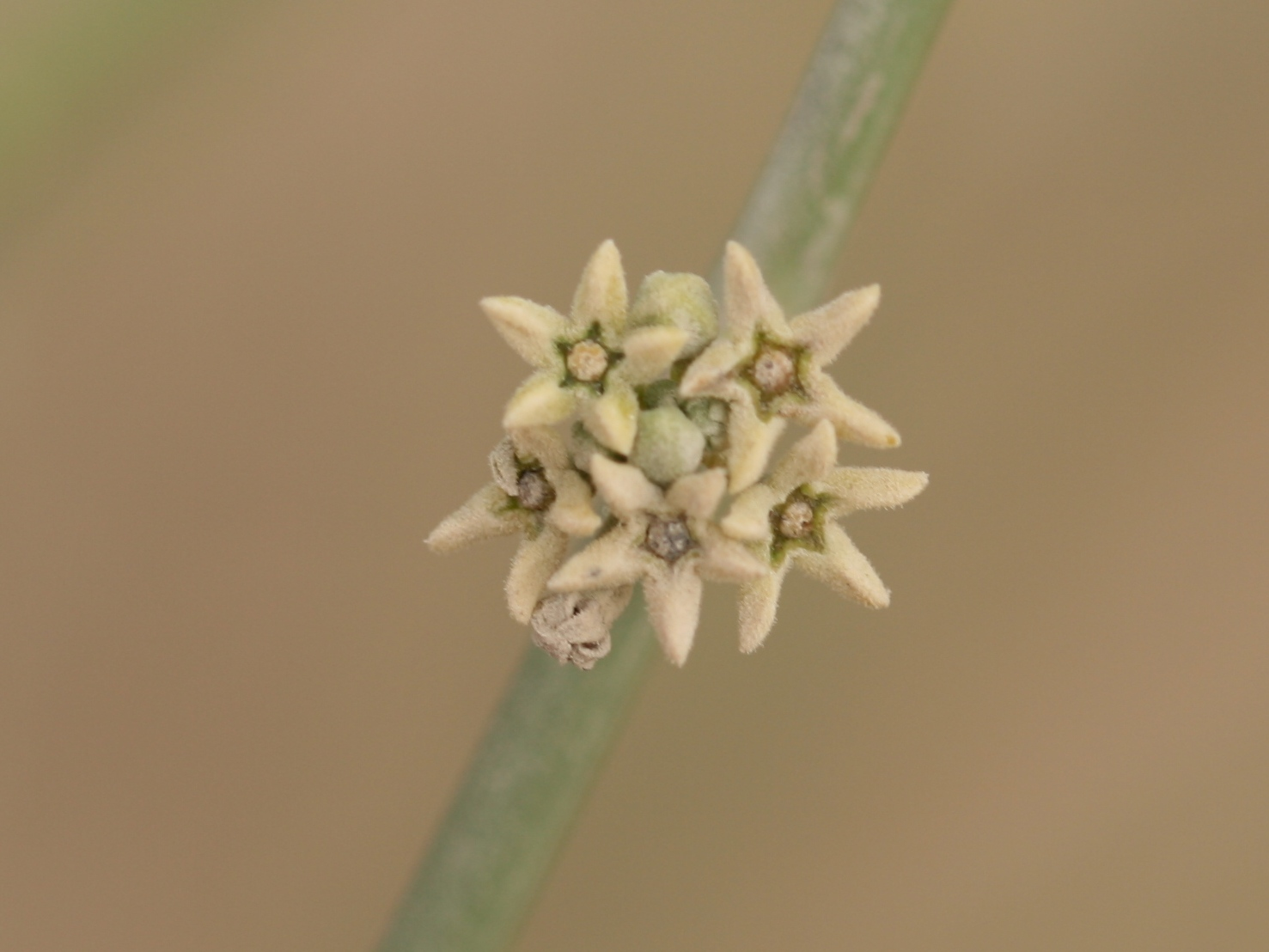 Leptadenia pyrotechnica, Desert plants, Landscape plants of the UAE